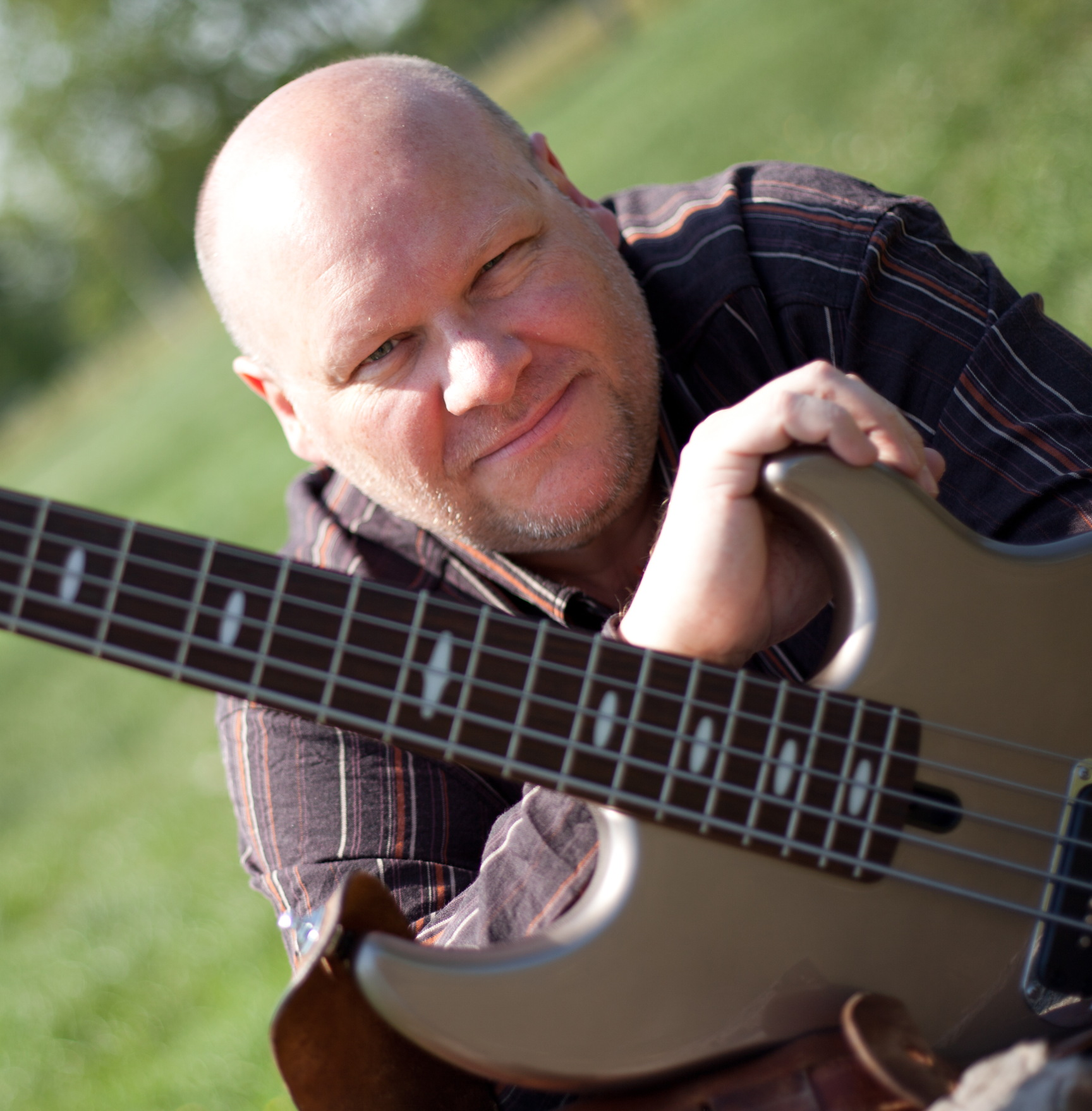 Frank Itt with BB615X